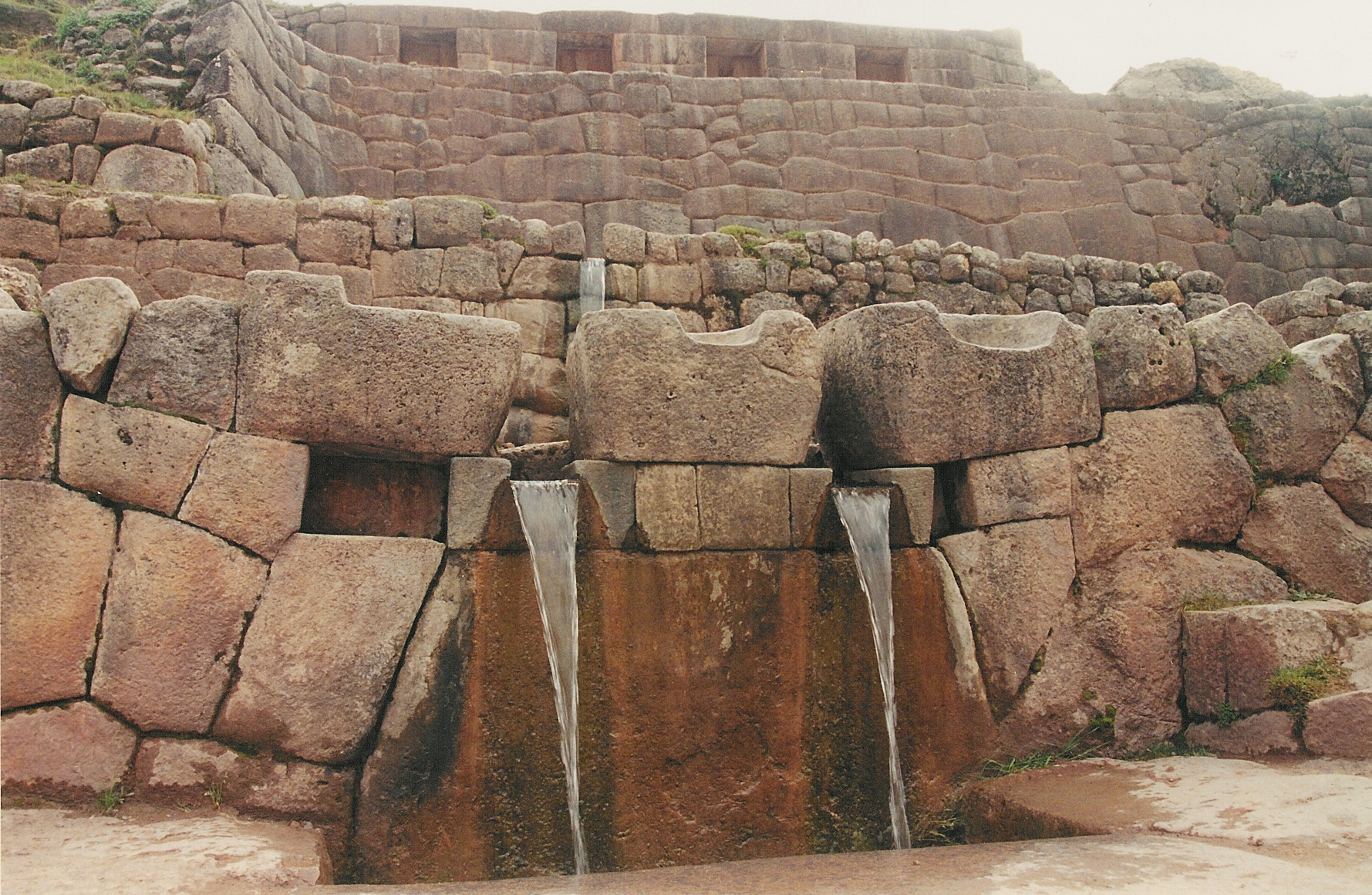 Tambo Machay Archaeological site (bath)